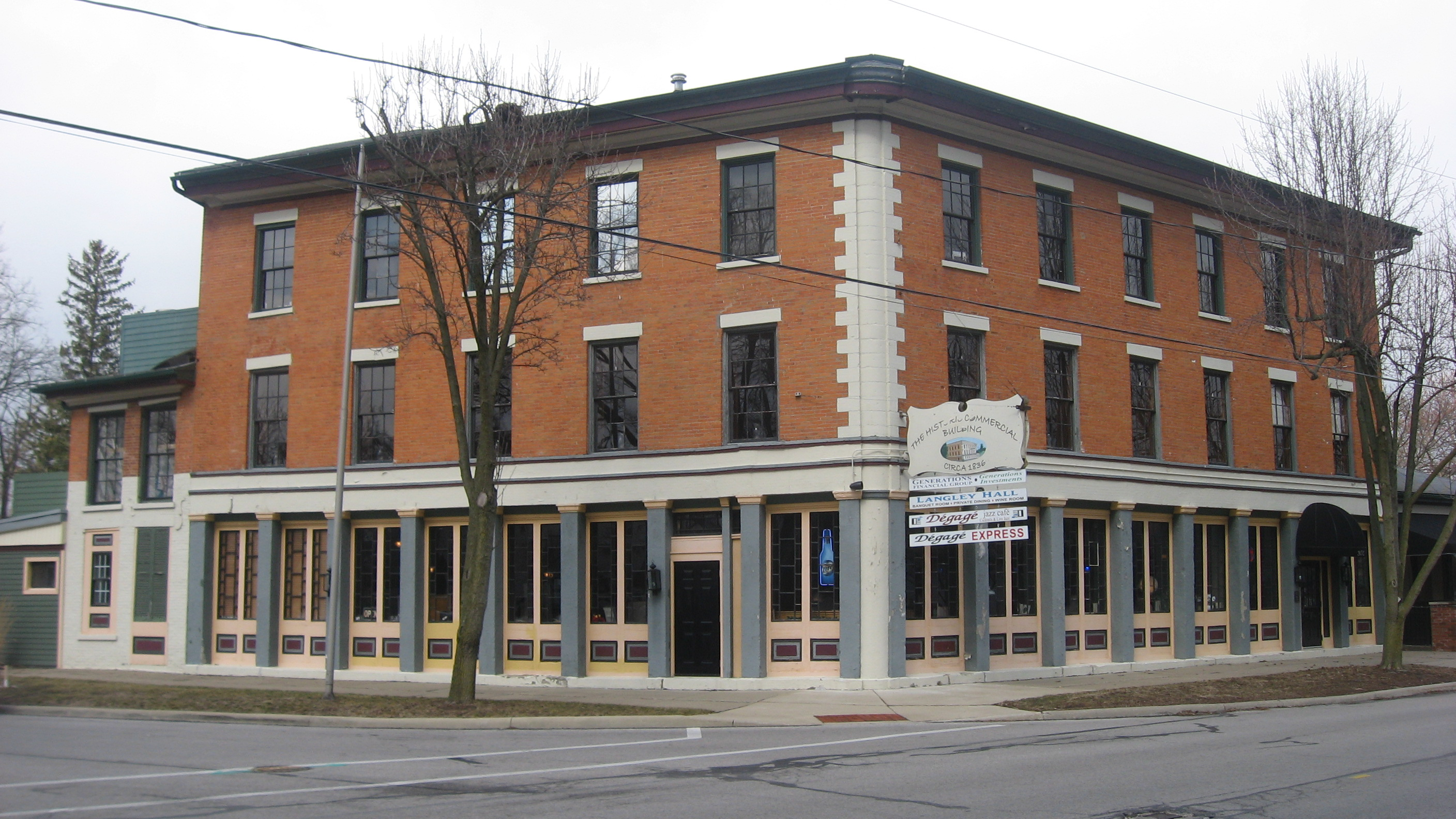 Front of the Governor's Inn (now the Commercial Building, home to a jazz restaurant), located at 301 River Road in Maumee, Ohio, United States. Built in 1836, it is listed on the National Register of Historic Places.